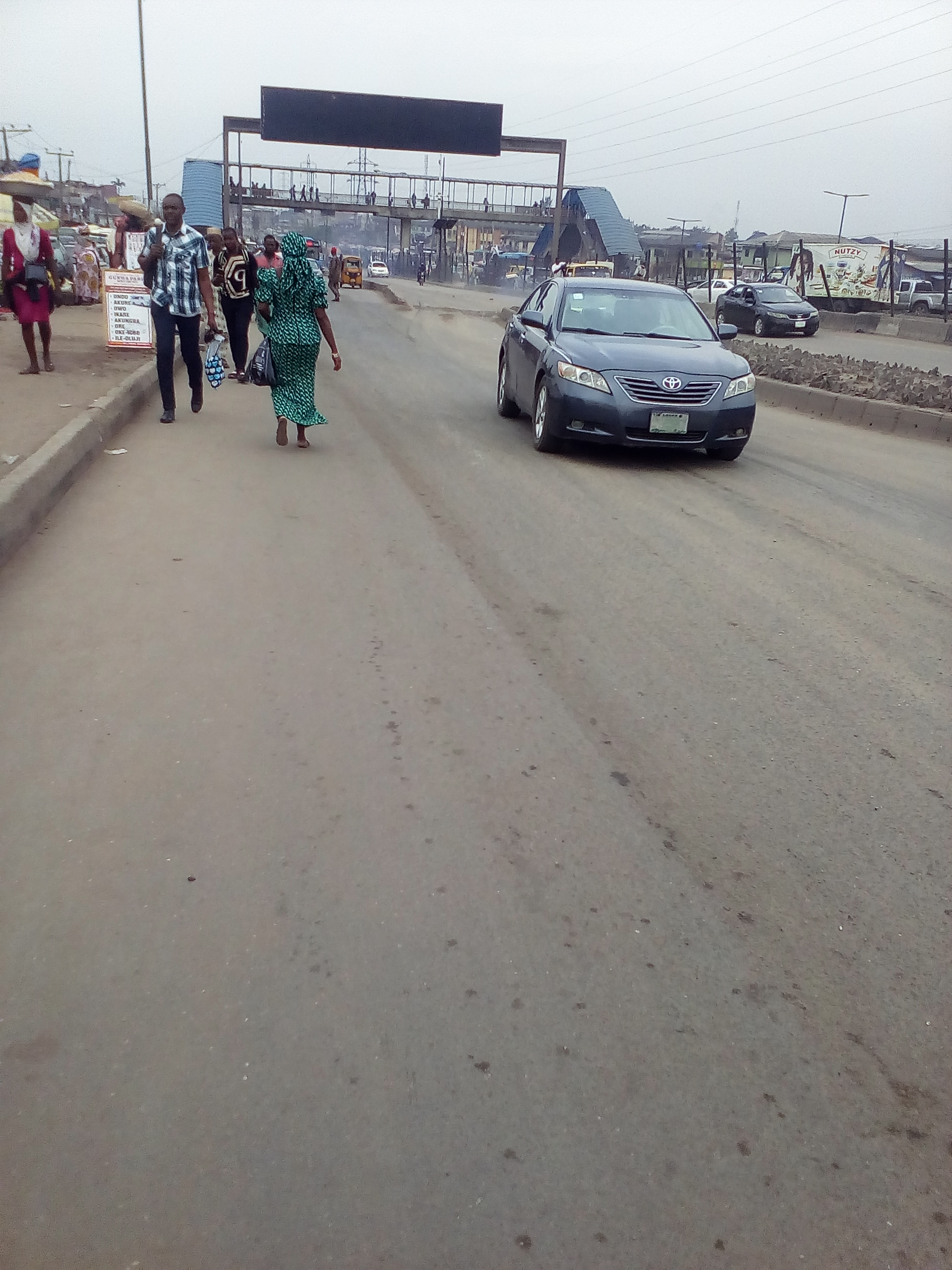 Lagos